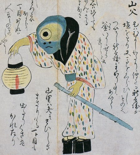 Yama-chichi (山父, An old man with one eye and one leg) from the Tosa Obake Zōshi (土佐お化け草子)